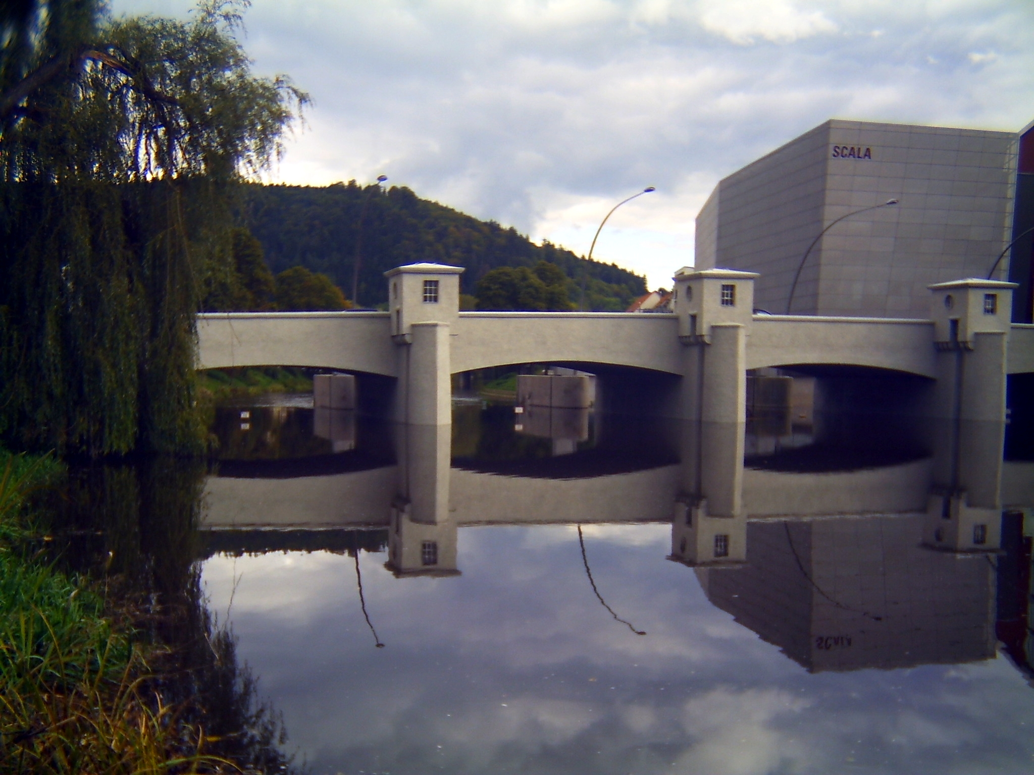 The danube in Tuttlingen